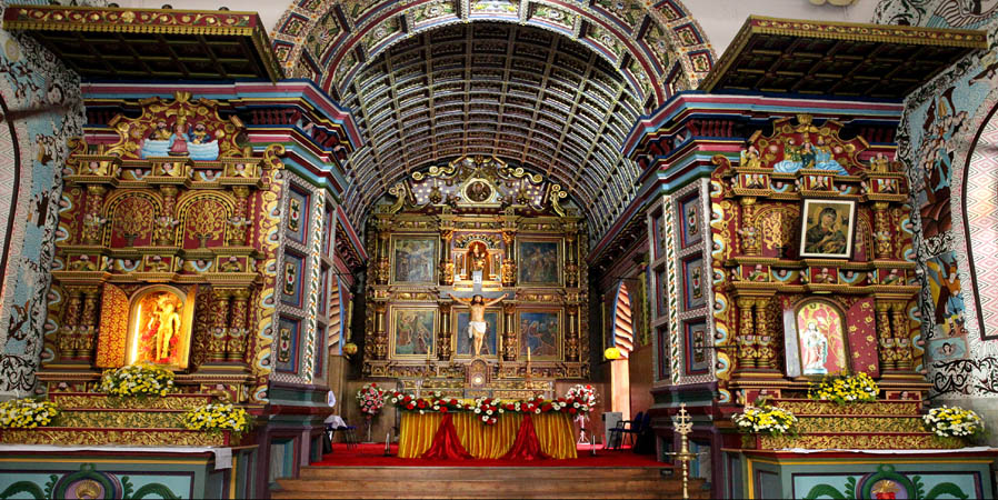 St.Mary's Forane Church Althara